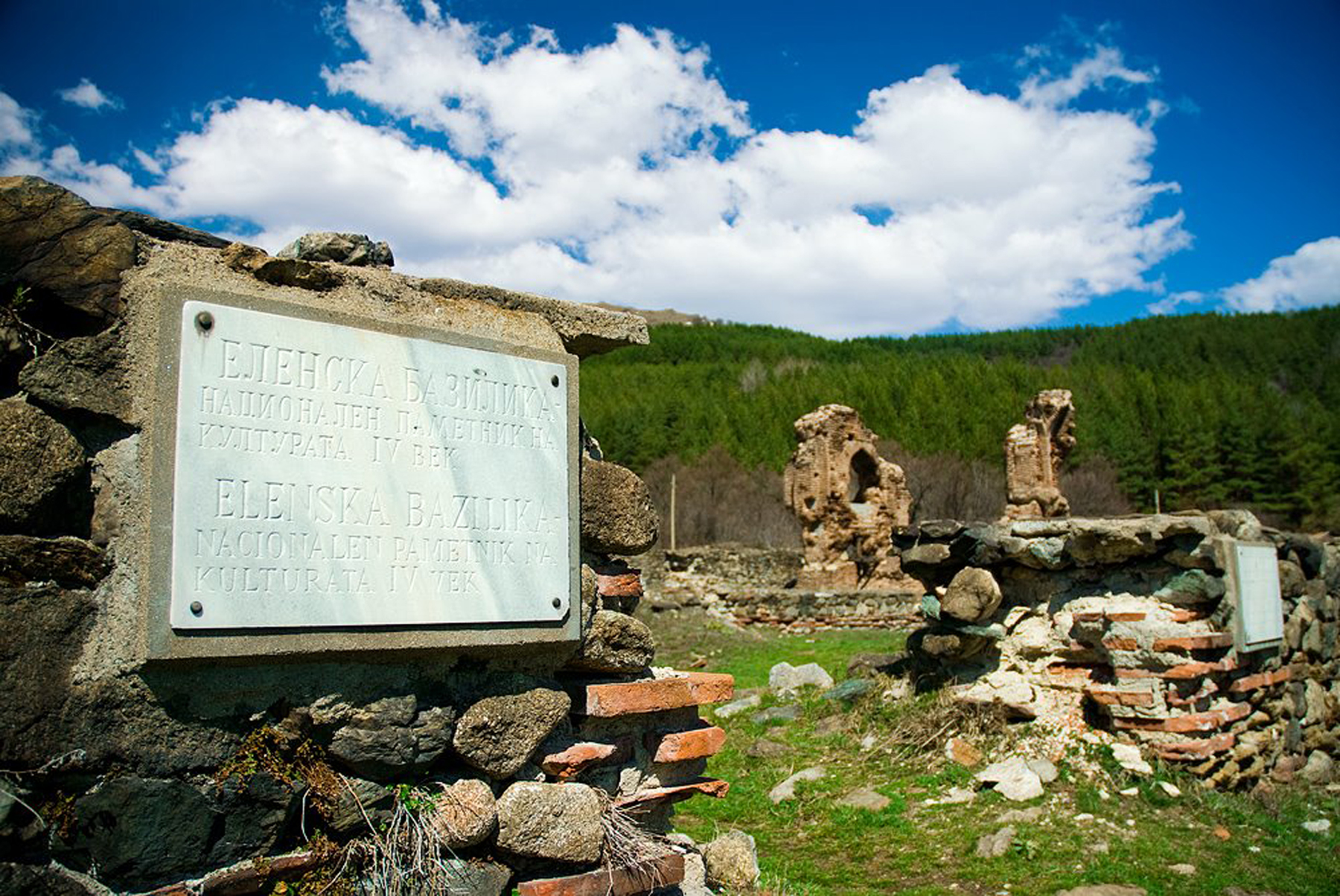 Bulgarian monastery St. Elias basilica